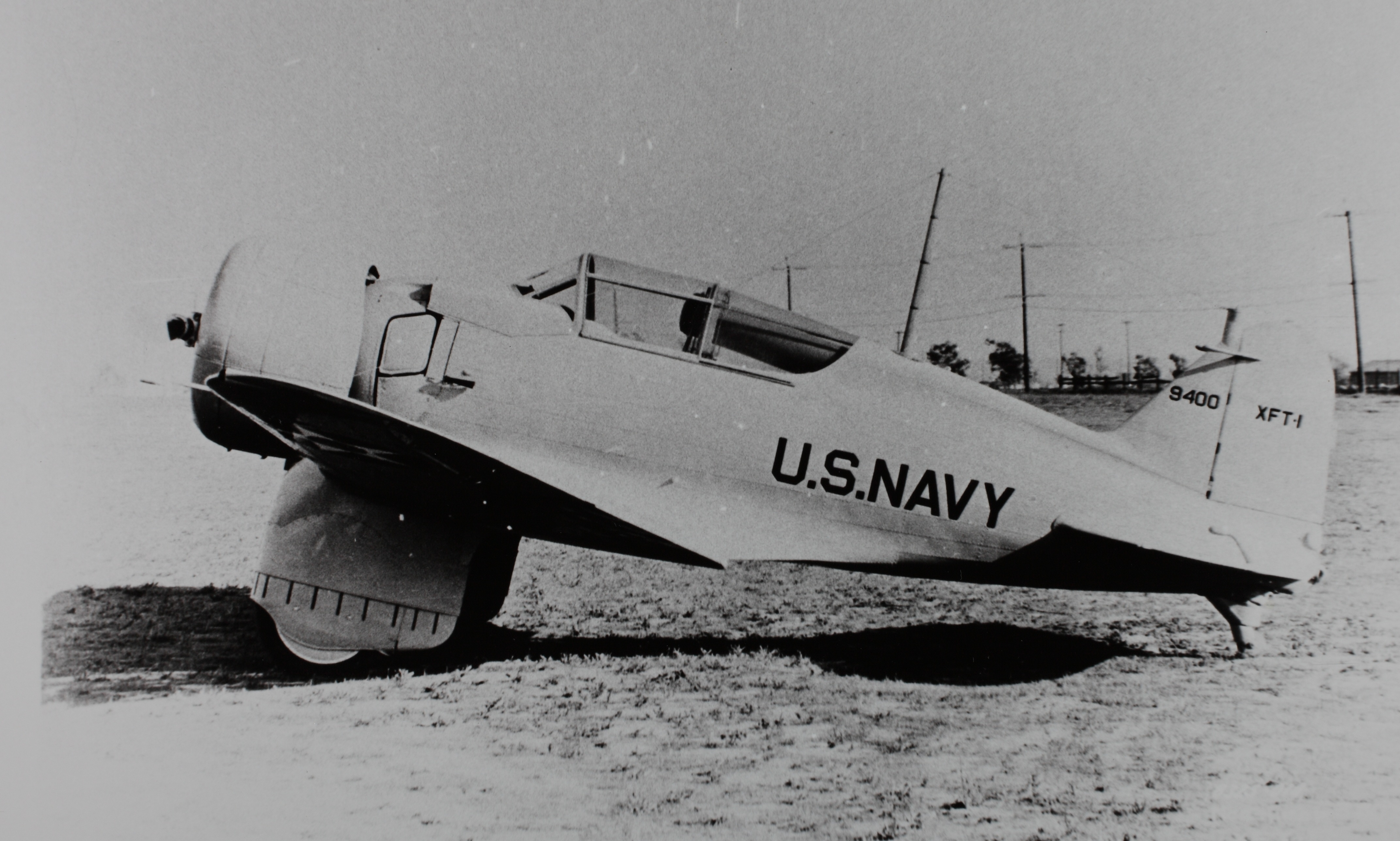 The Northrop XFT-1.